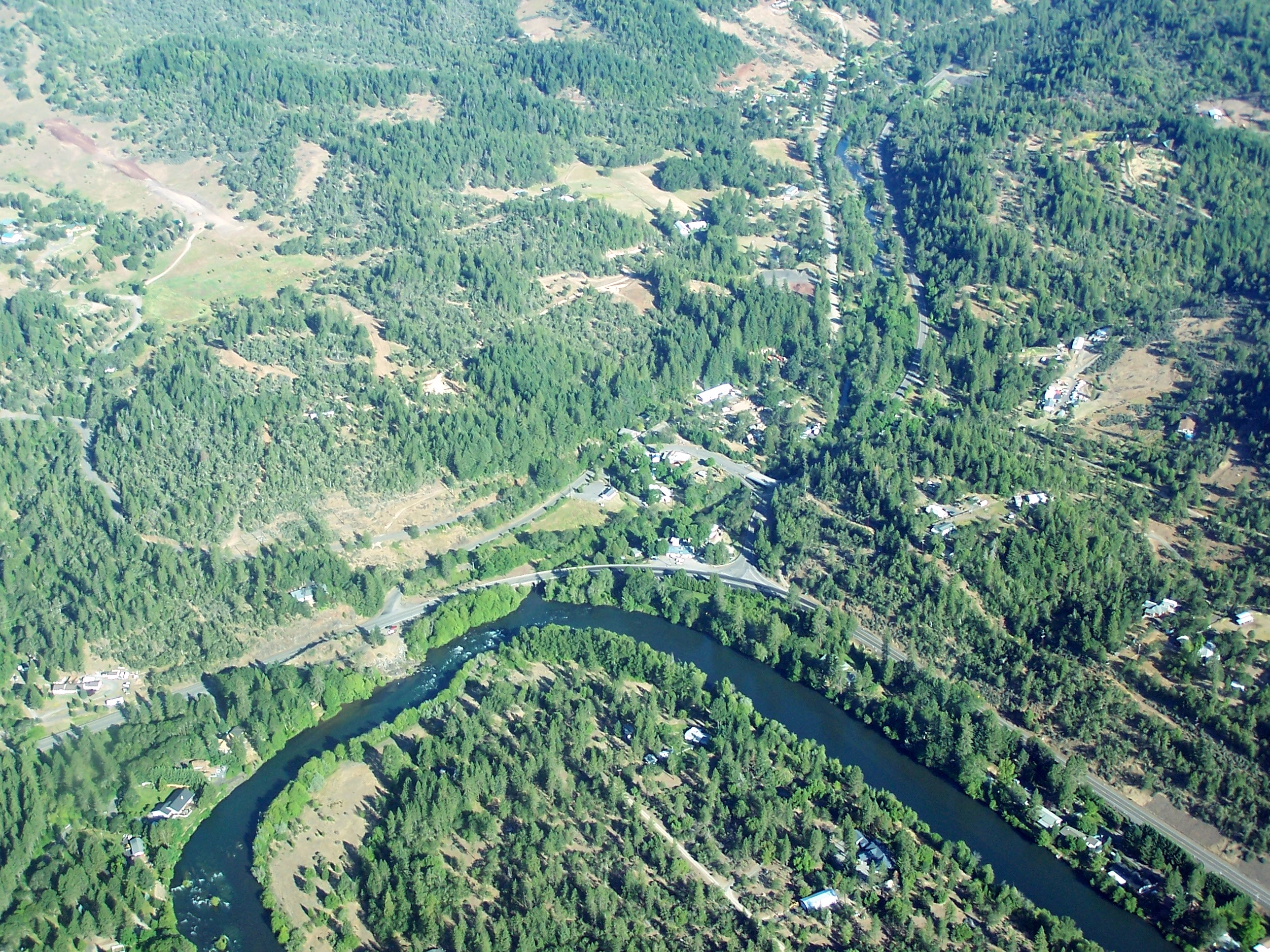 An aerial image of Trail, Oregon, where Trail Creek meets the Rogue River